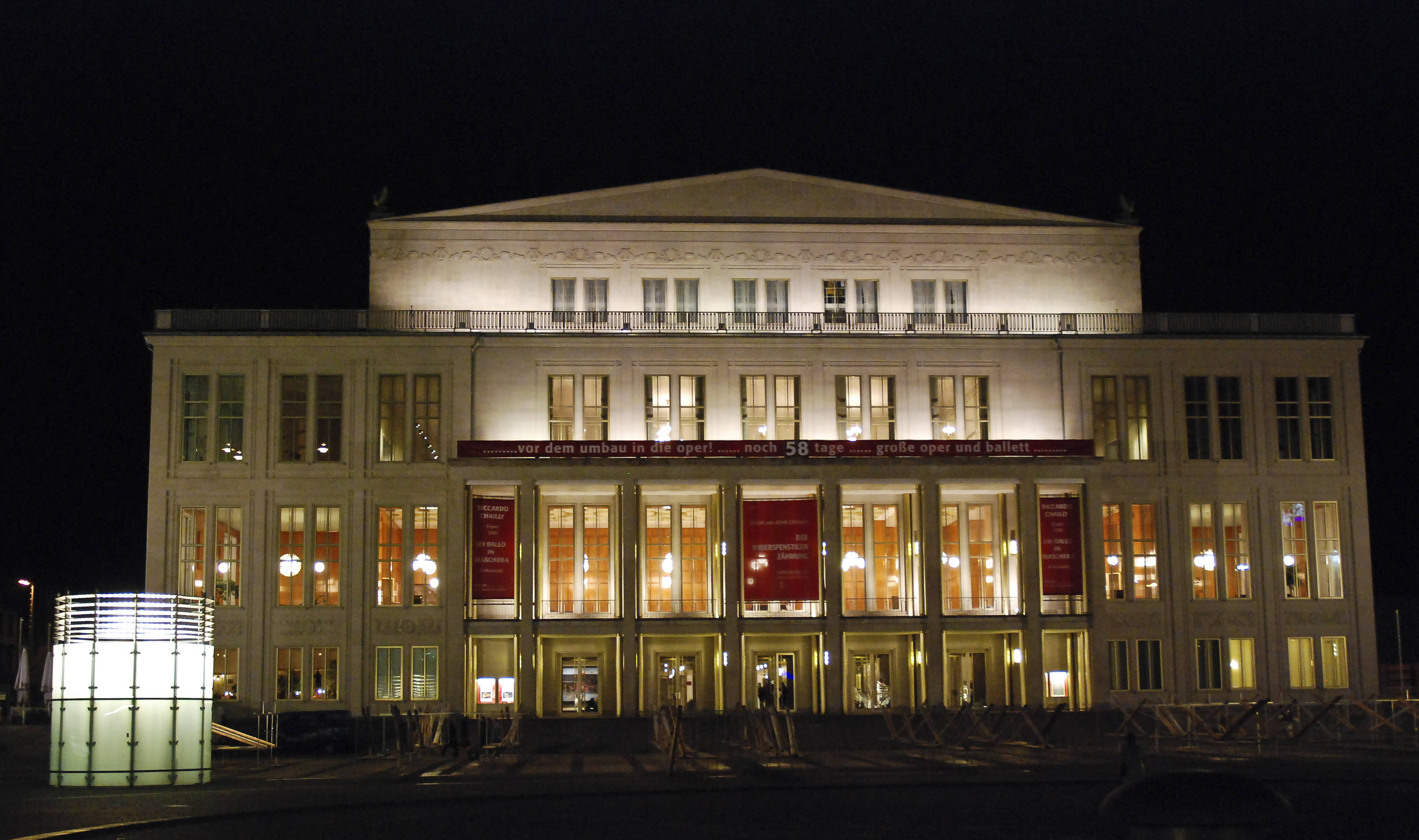 Oper Leipzig at night.